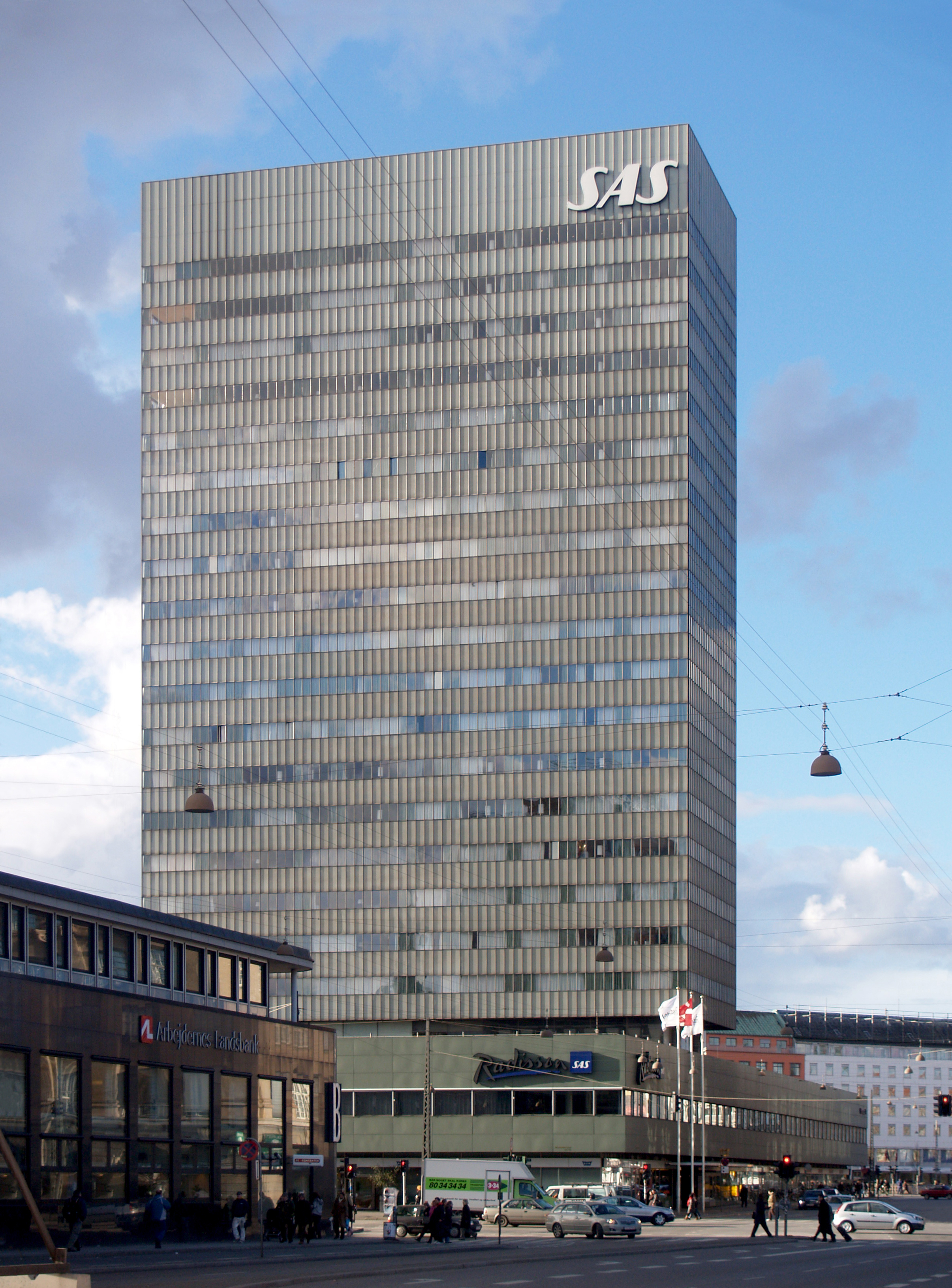 sas royal hotel, copenhagen, 1955-1960. architect: arne jacobsen, 1902-1971.